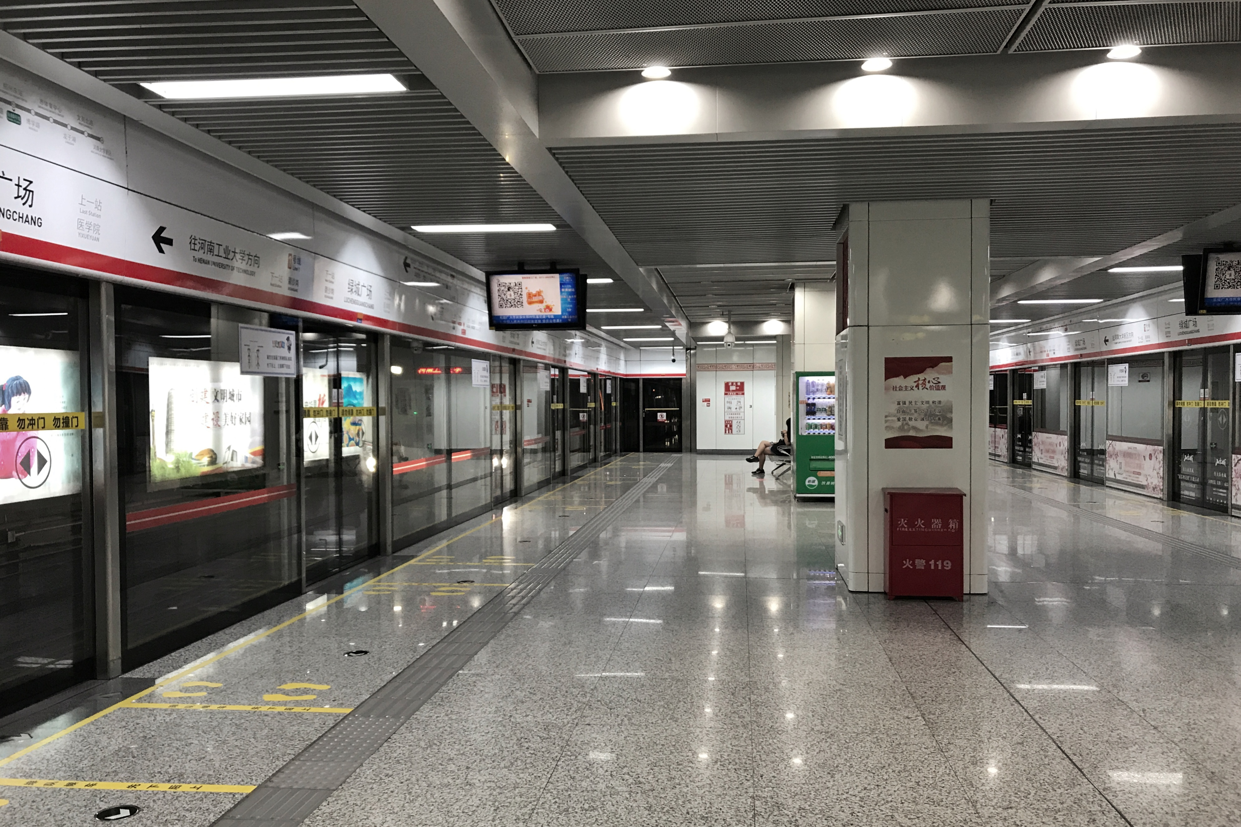 Plaform of Luchengguangchang Station, Zhengzhou Metro